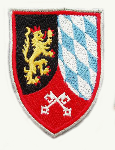 11th Armored Grenadiers Brigade